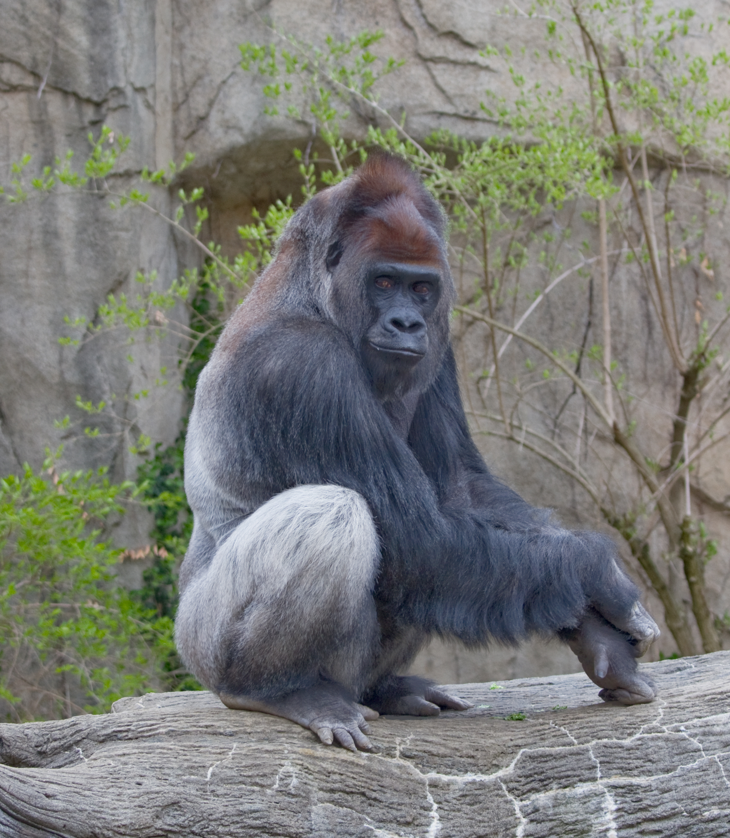 Male western lowland gorilla - taken at the Cincinnati Zoo.